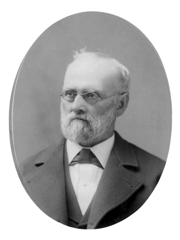 Photograph of Anthony Chabot